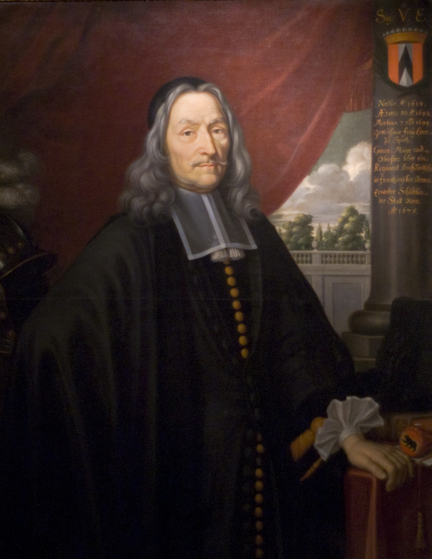 Sigmund von Erlach (October 3, 1614 – December 7, 1699), Schultheiss of Bern, in 1694.